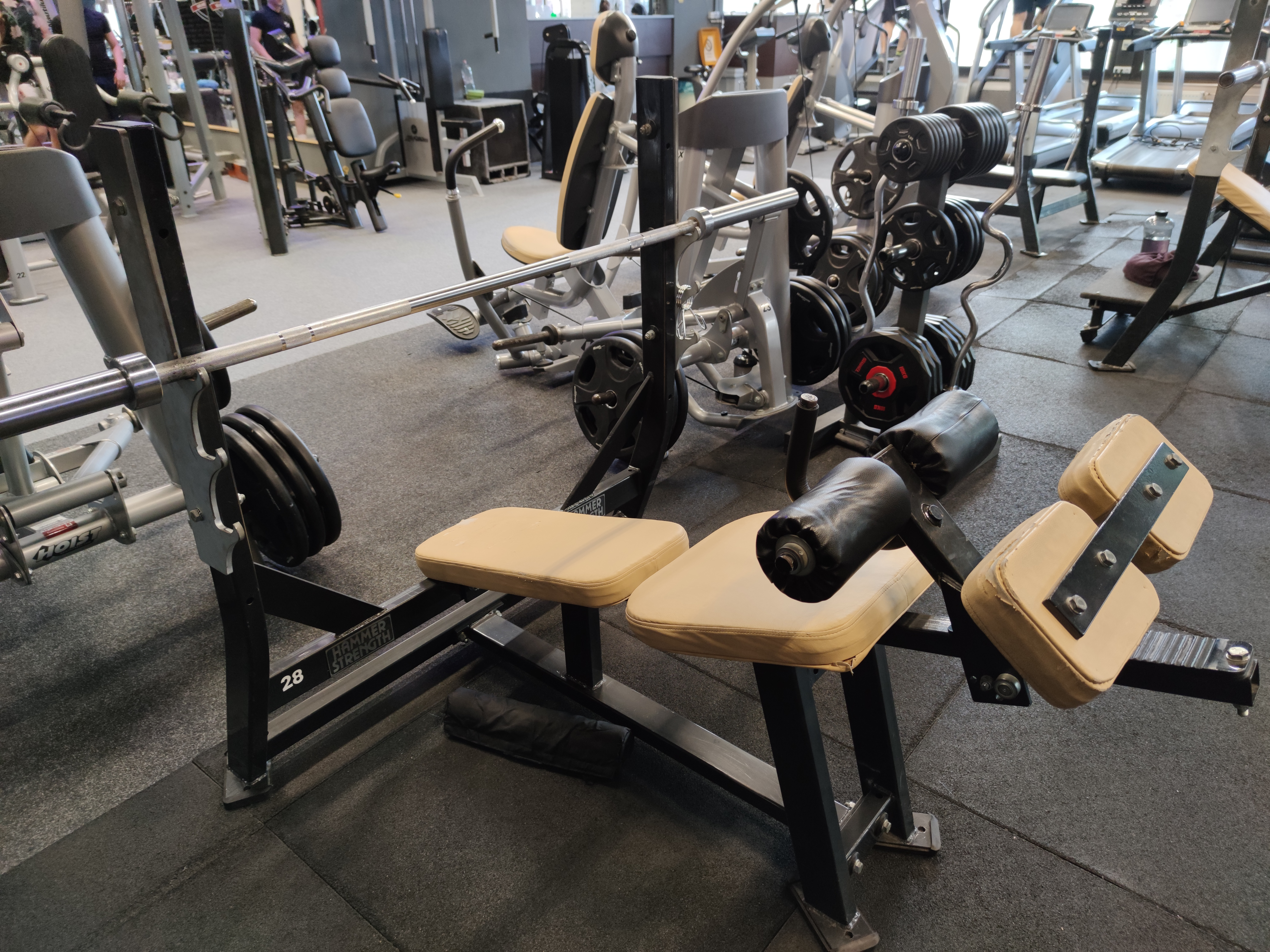 Negative bench